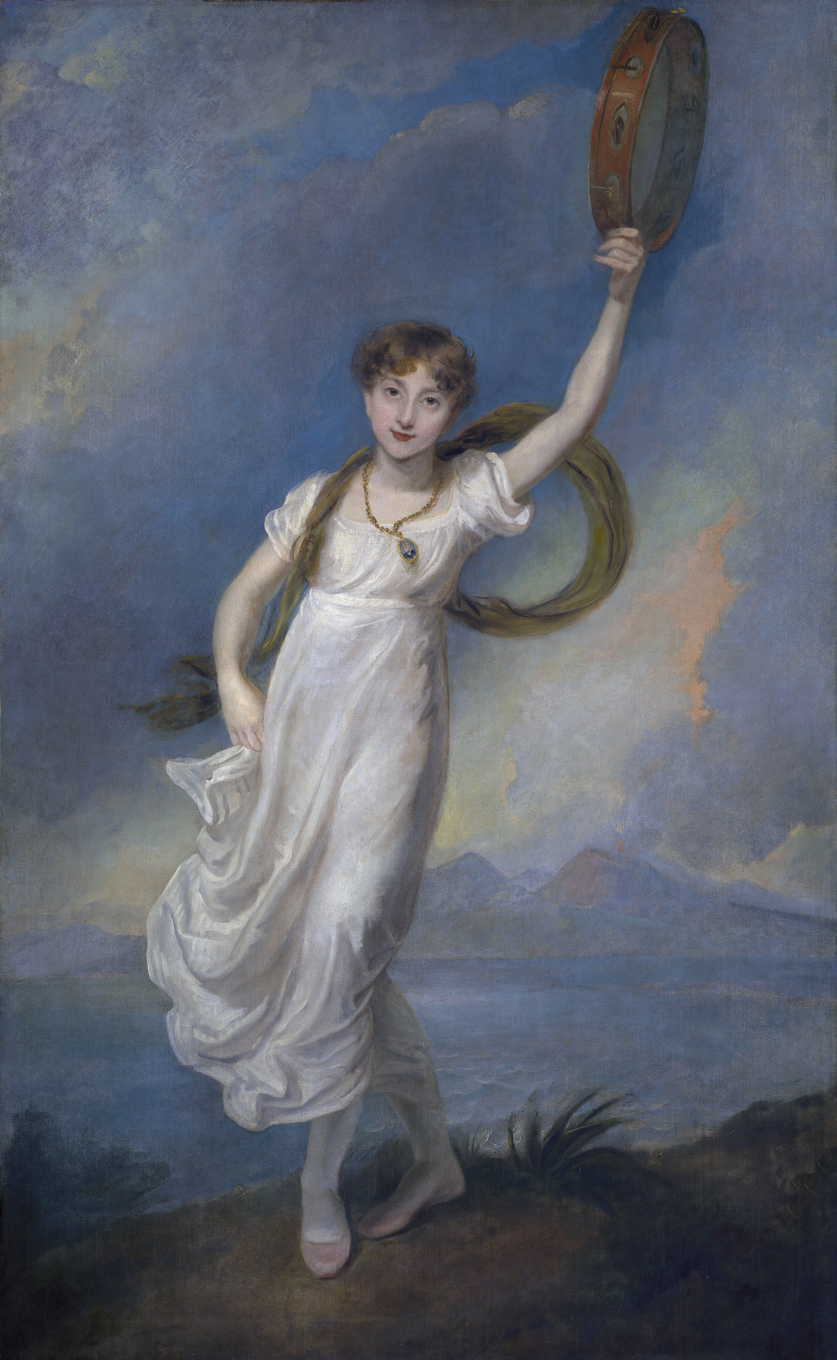 Horatia Nelson oil on canvas 195,5 x 127 cm circa 1815